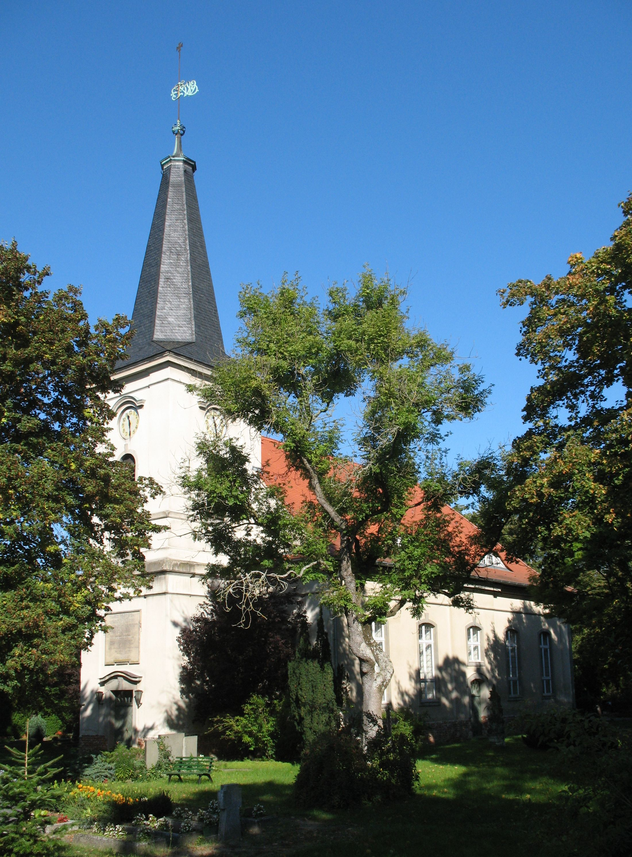 Church in Fehrbellin-Königshorst in Brandenburg, Germany Object location52° 42′ 35.8″ N, 12° 47′ 38.01″ E